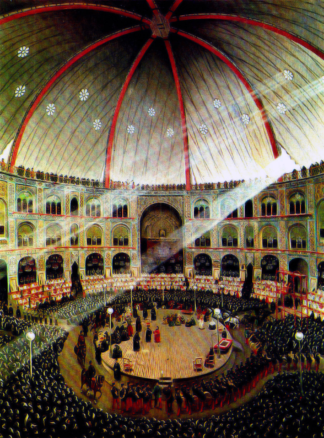 Dawlat Hall. Painting by Kamal-ol-molk in 1892